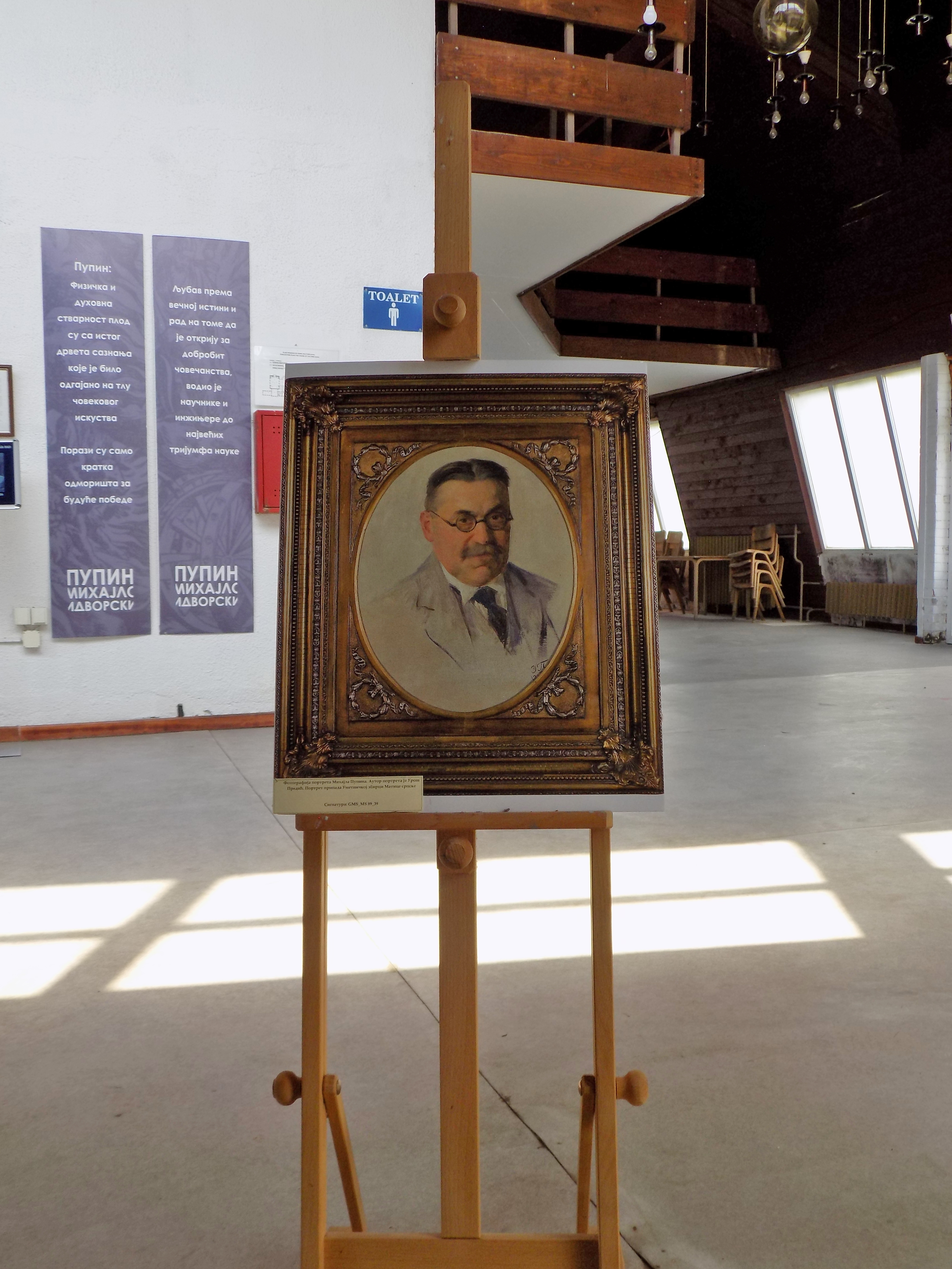 Memorial complex of Mihajlo Pupin - Reproduction of the portrait of Mihajlo Pupin, the work of Uroš Predić, which is part of the art collection of Matica Srpska